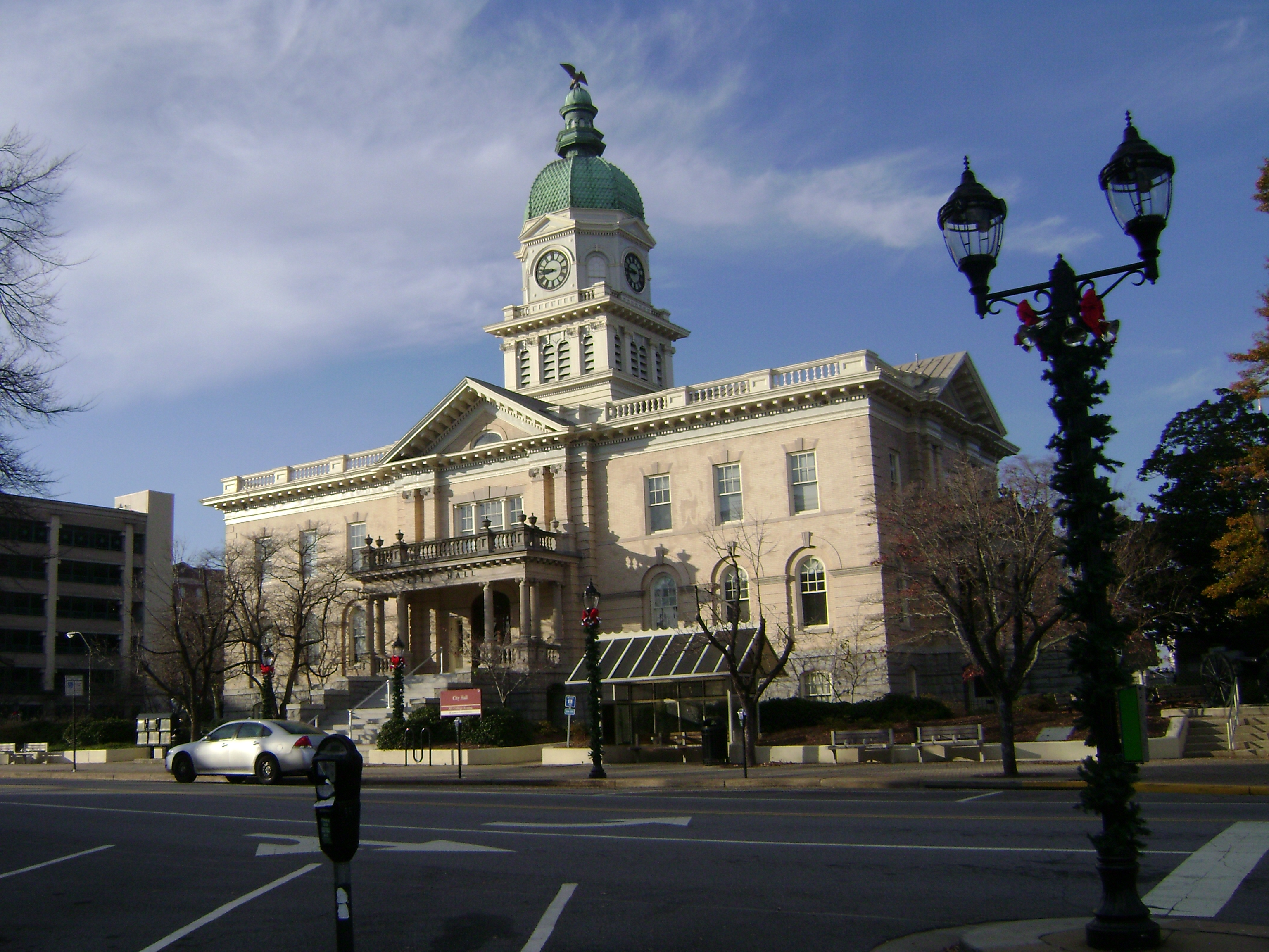 Athens City Hall from NE corner, Athens, Georgia